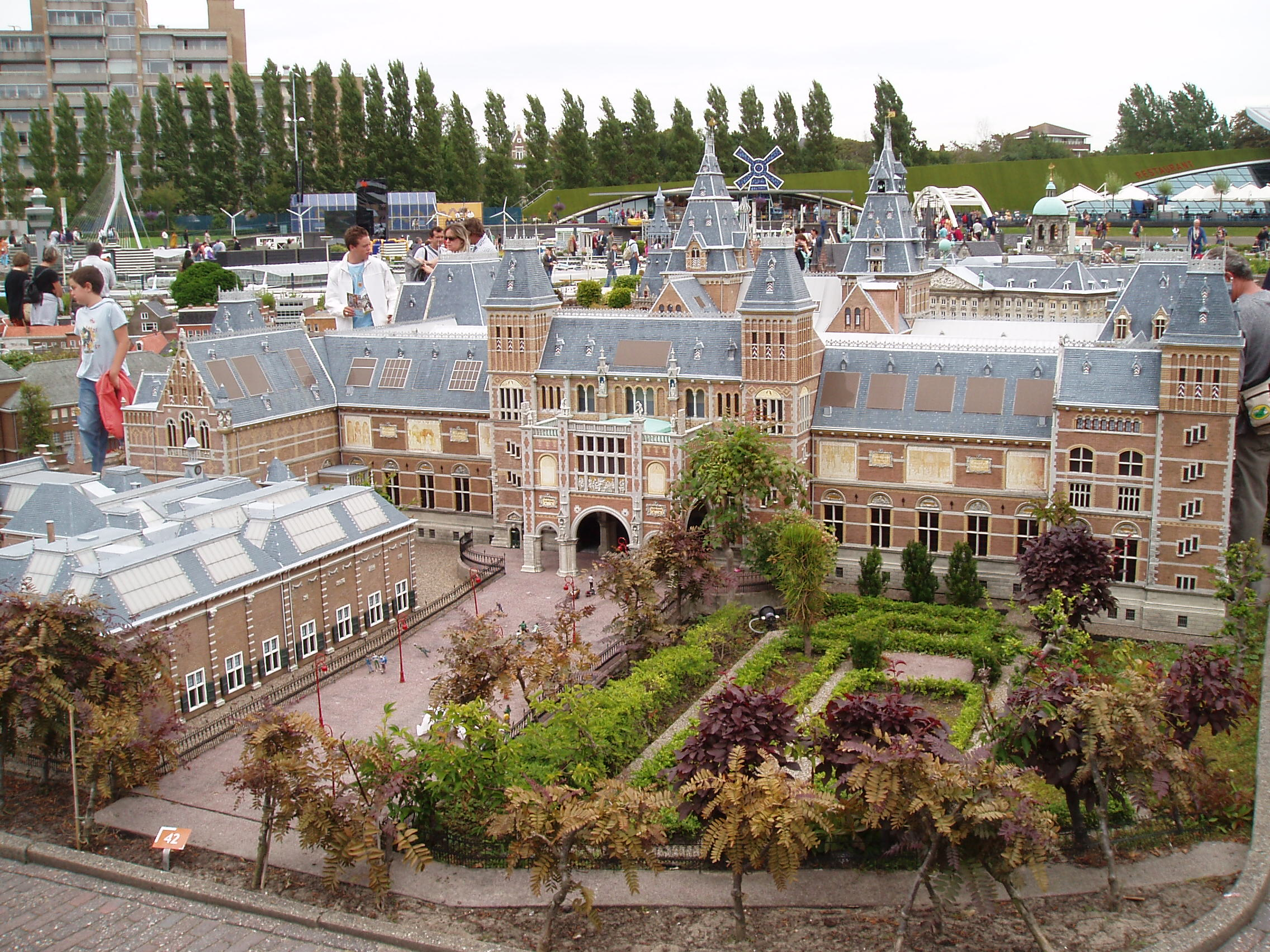 Madurodam in the Hague in the Netherlands; Rijksmuseum Amsterdam